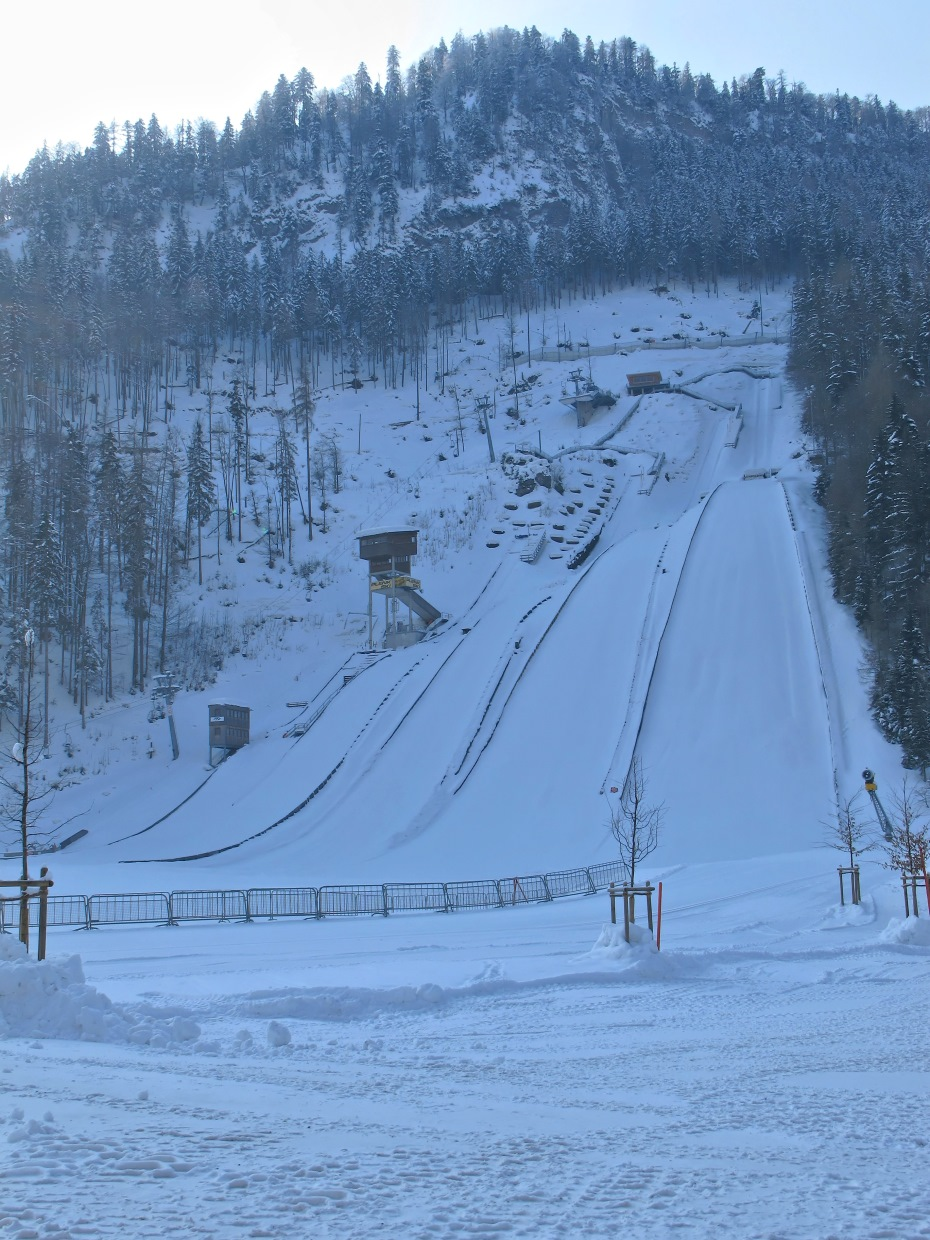 Ruhpolding, Ski Jump at Stadium for Biathlon